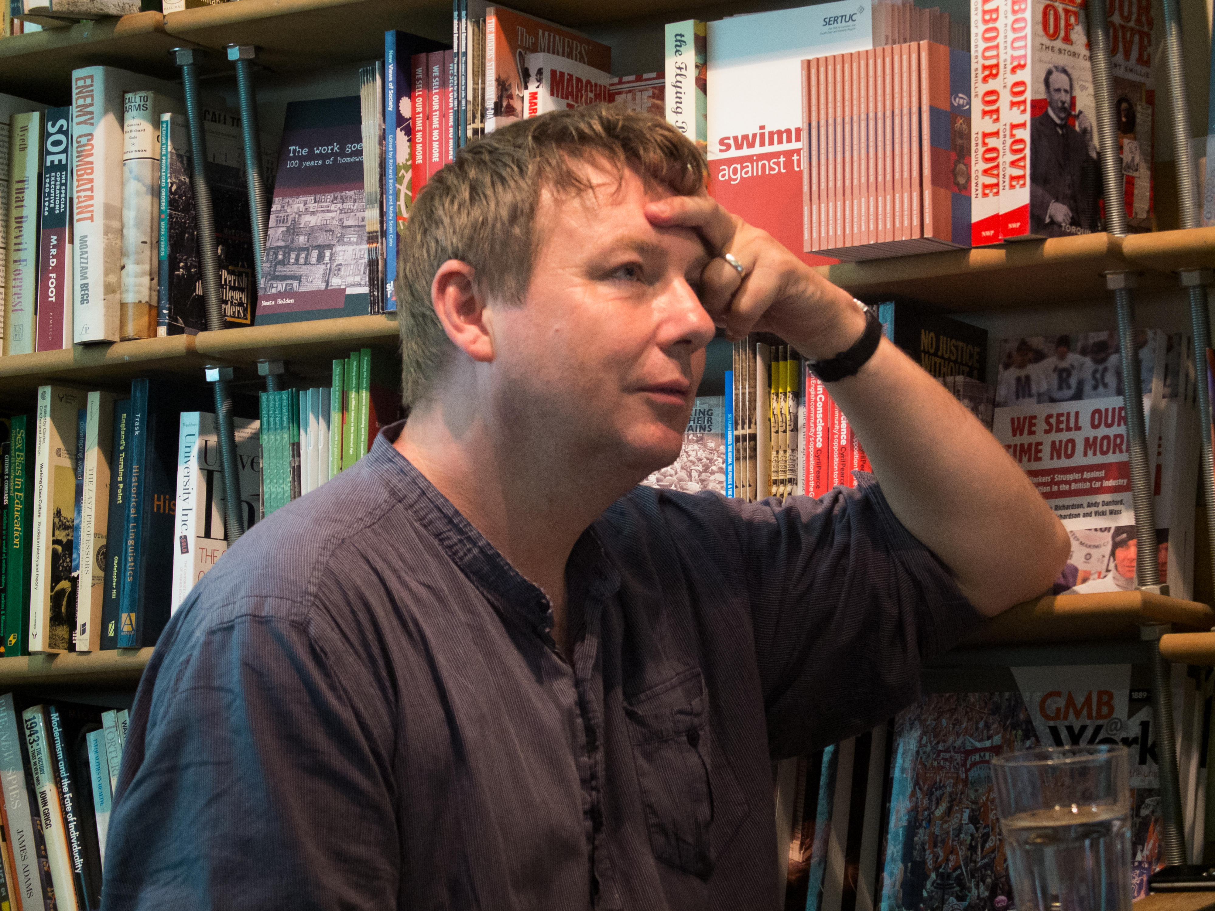 Danny Dorling talking about his book - All That Is Solid: The Great Housing Disaster